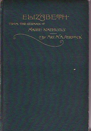 Book Cover, Marie Nathusius